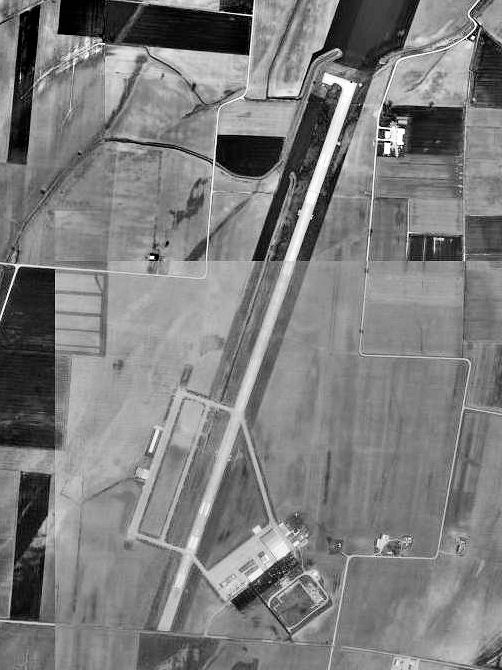 USGS digital orthophoto of Perryville Municipal Airport in Missouri, United States